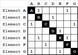 A sample binary Design Structure Matrix with "1"s as dependency marks.